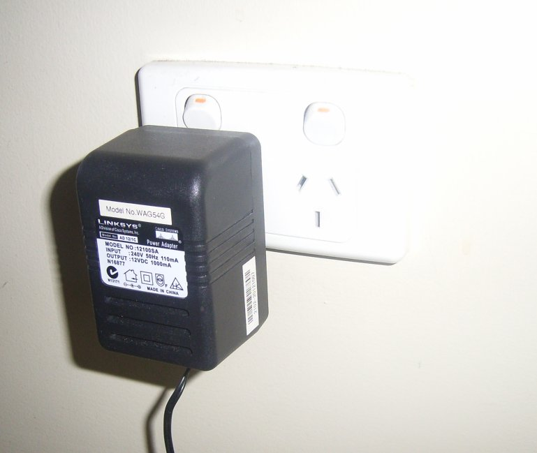 Power adaptor